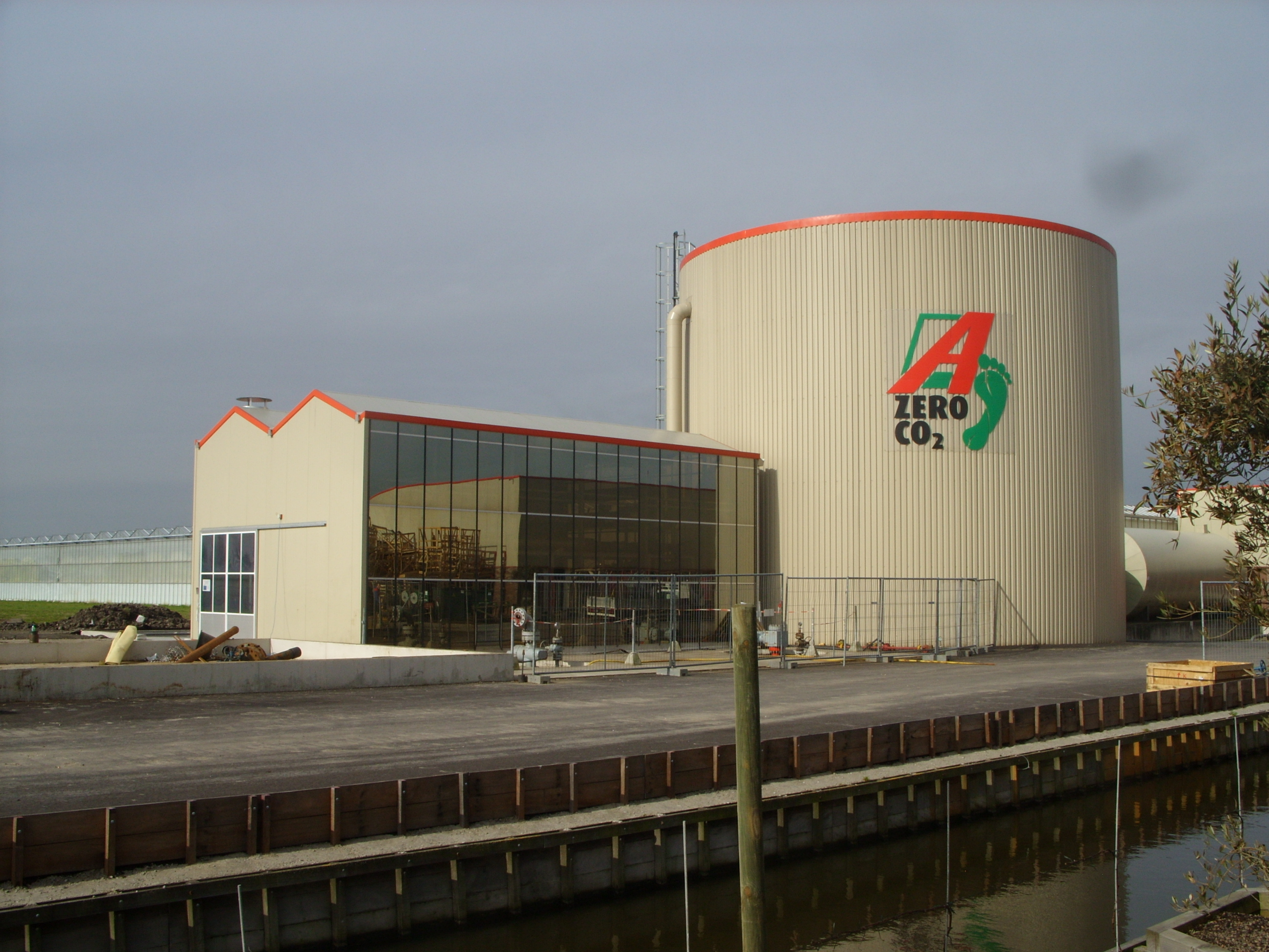 Geothermal site, Pijnacker, The Netherlands